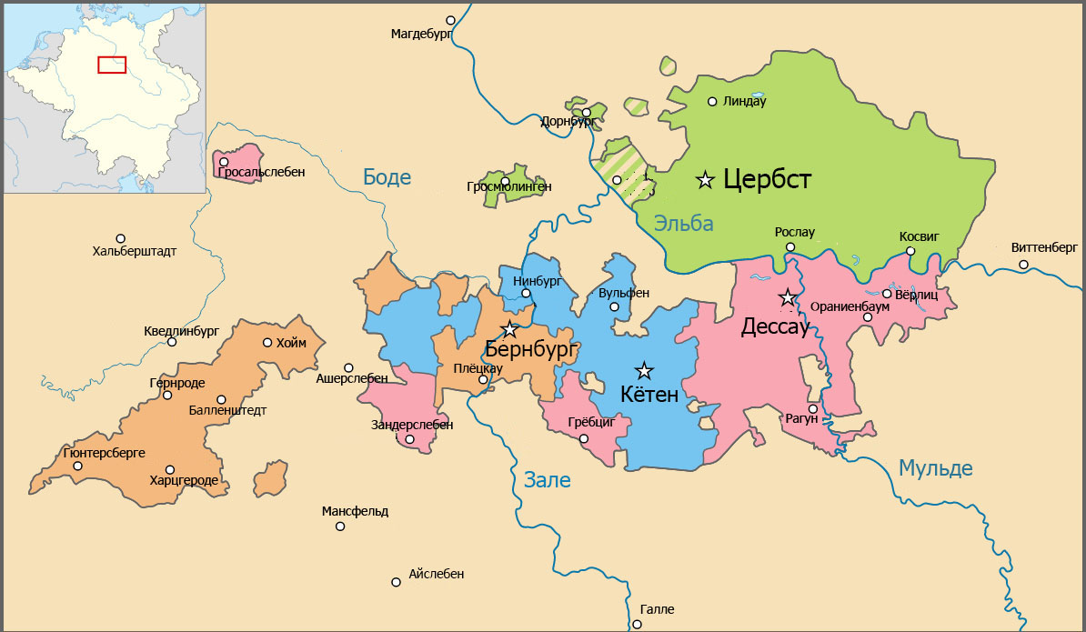 Original file was taken here - File:Map of Anhalt (1793).svg. I made some work for change german words to russian